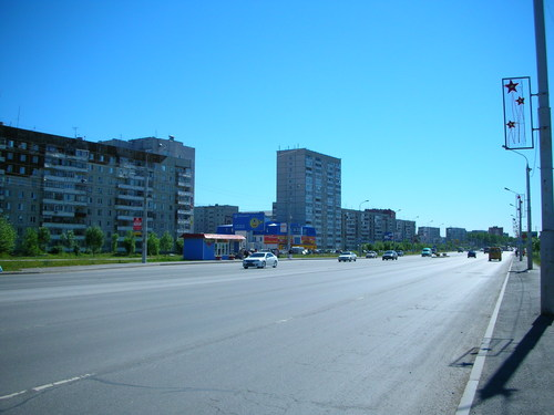 South-East Extremity.